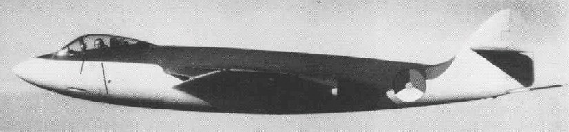 A Hawker Sea Hawk Mk.50 of the Royal Netherlands Navy which operated 22 Sea Hawks from 1957 to 1964.The strange appearance of the national insignia and the absence of any other markings may lead to the conclusion that this phot was retouched.